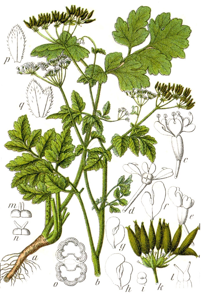 Chaerophyllum temulum L. Original Caption Betäubender Kälberkropf, Chaerophyllum temulum